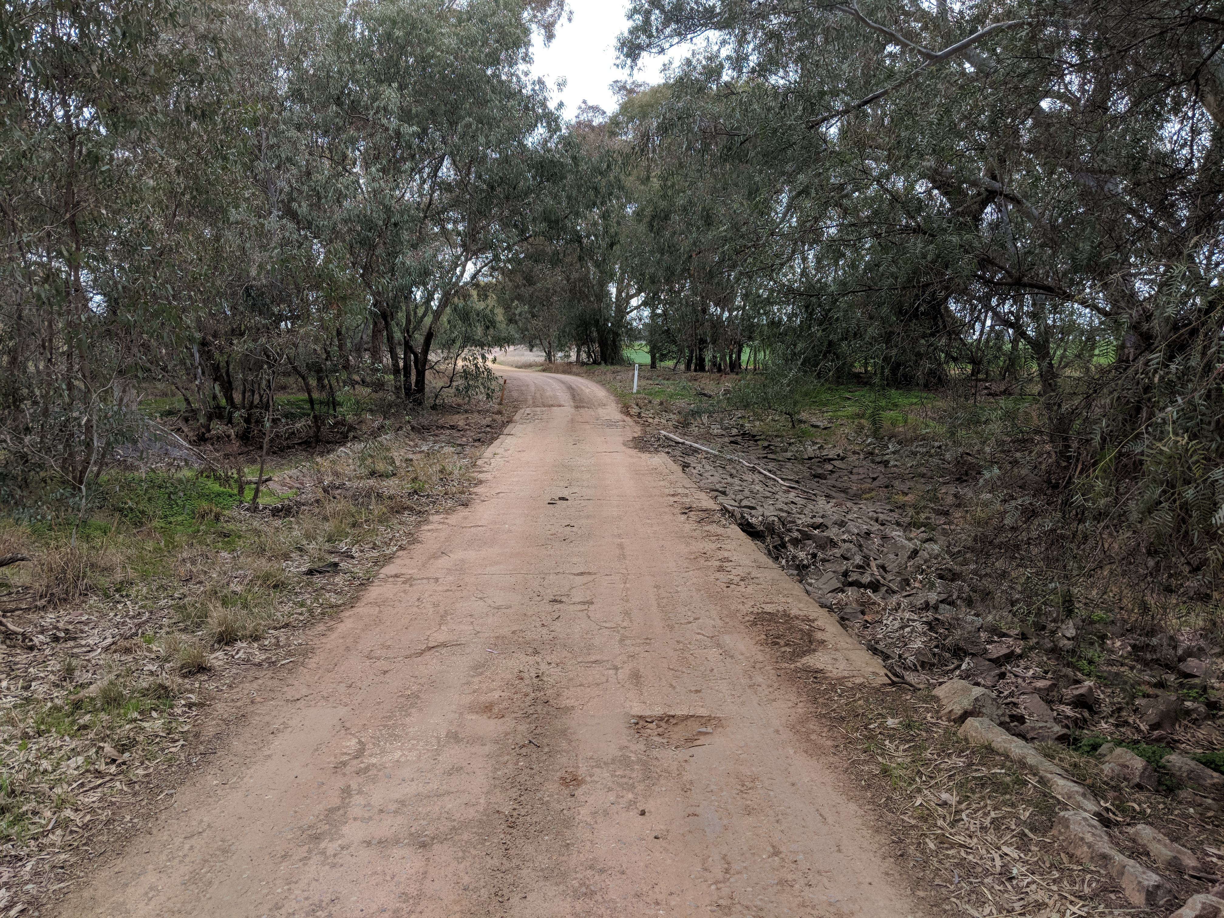 Image of Chinese Crossing, Noskes Lane, near Yerong Creek, NSW, Australia